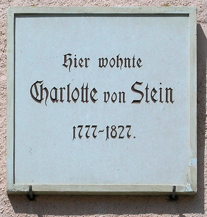 Memorial plaque, Charlotte von Stein, Ackerwand 27, Weimar, Germany Koordinate:52°58′40″N 11°19′54″E / 52.97778°N 11.33167°E